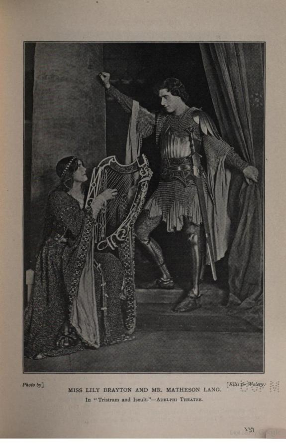 Matheson Lang as Tristan and Miss Lily Brayton as Iseult